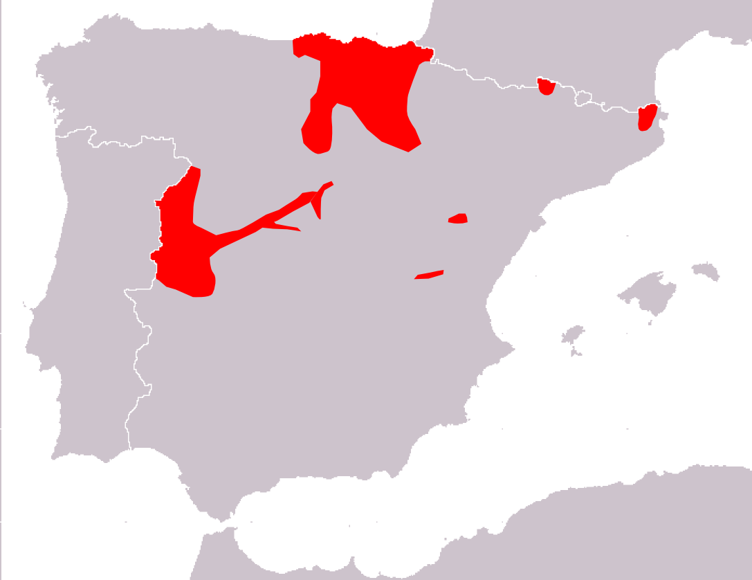 Distribution map in Spain of Dendrocopos minor.